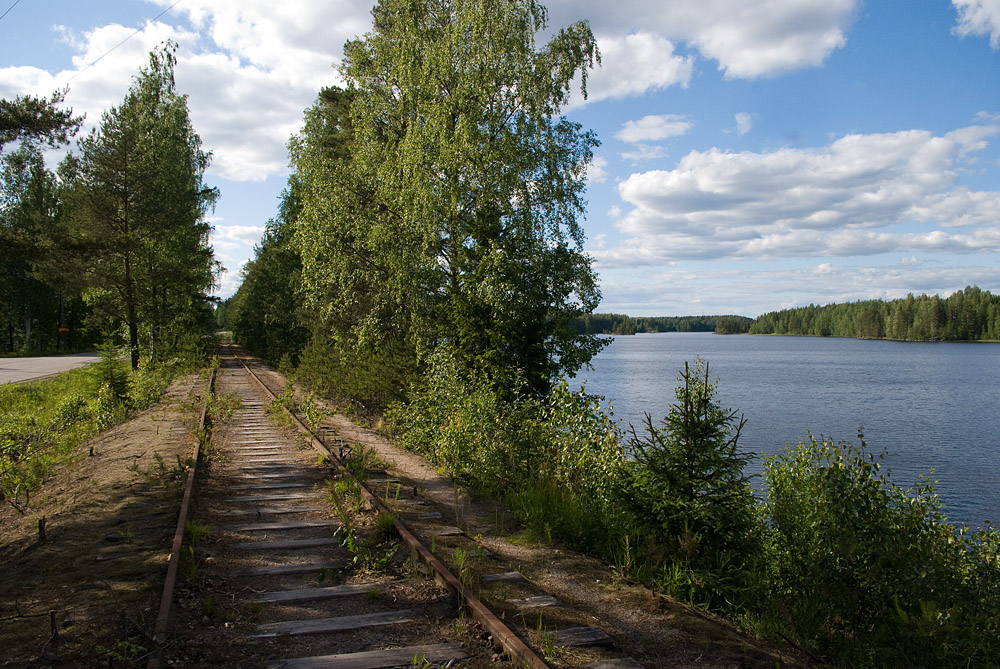 Hevossaari railway in Heinola, Finland